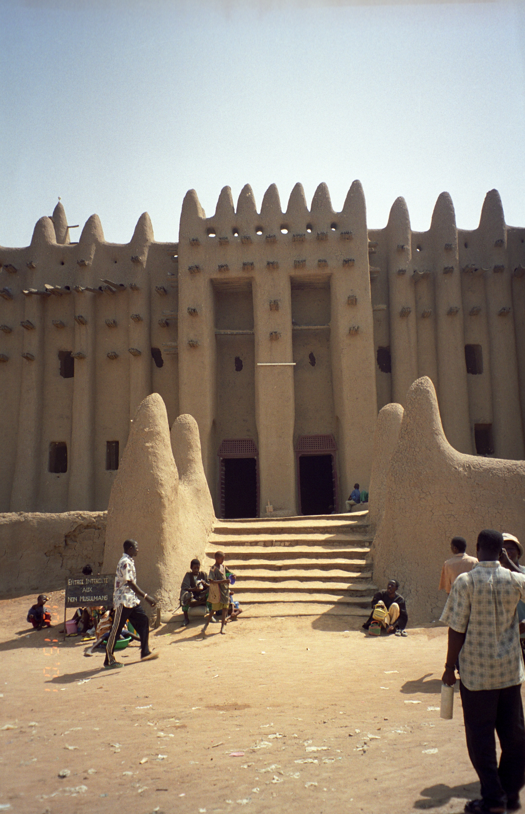 the sign on the left says "entree interdite aux non musulmans" ("entrance forbidden for non-muslims"). i was actually invited in after i said "hello" to a guy by the sign in arabic. he must have assumed i was a muslim. but i confessed my heathen-ness. i just couldn't bring myself to pretend i was something i am not